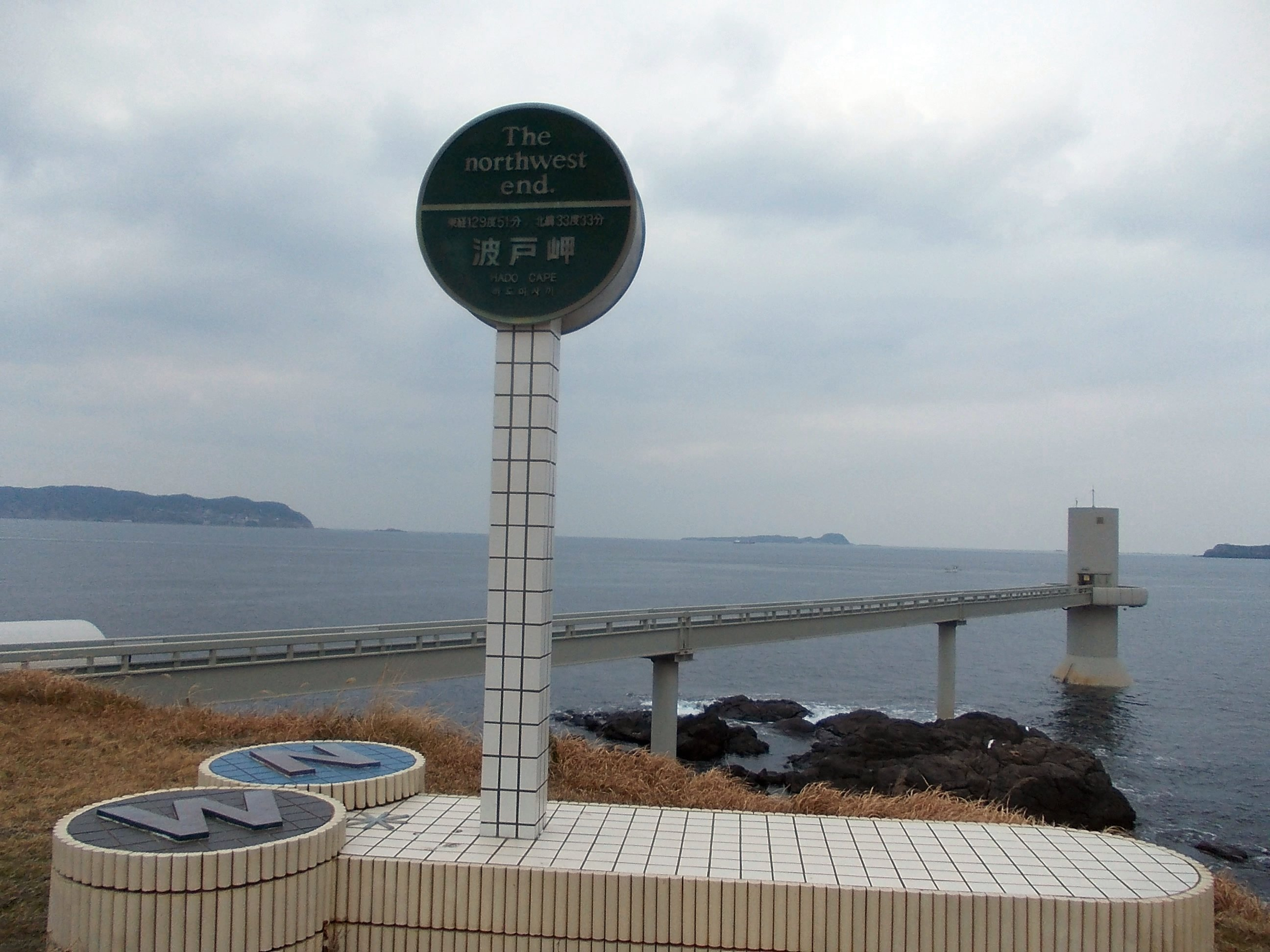 Hado-misaki is a cape on the north side of Karatsu city, Saga Prefecture, Japan. It is the westernmost point of the island Kyūshū as well as the north-westernmost point of Japan's four main islands. There is a monument of the Northwest end of Japan and an observatory on the sea which can be seen islands of the Sea of Genkai from the observation deck. From the observatory, it can be look more than 30 kinds of fish swimming on the sea and seaweed and shells closer.